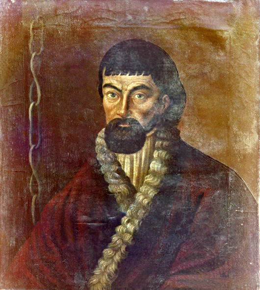 A portrait of Pugachov, painted from life with oil paints. Museum inventory number 4588. In the Rostov museum. Rostov Velikii. 1911